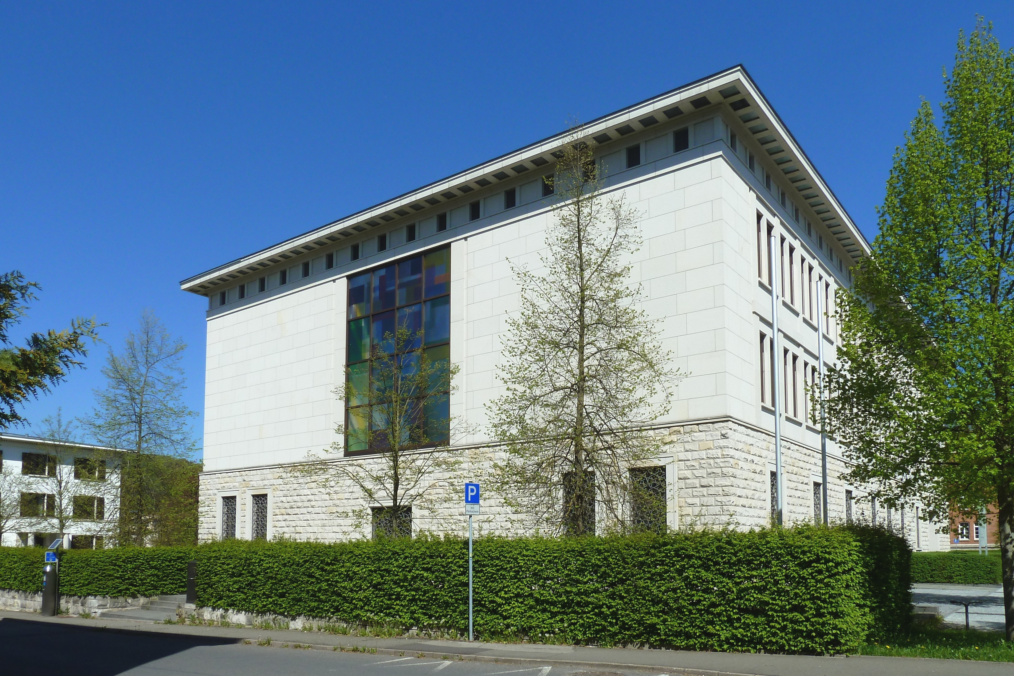 Bundesbank building in city Meiningen, Germany.